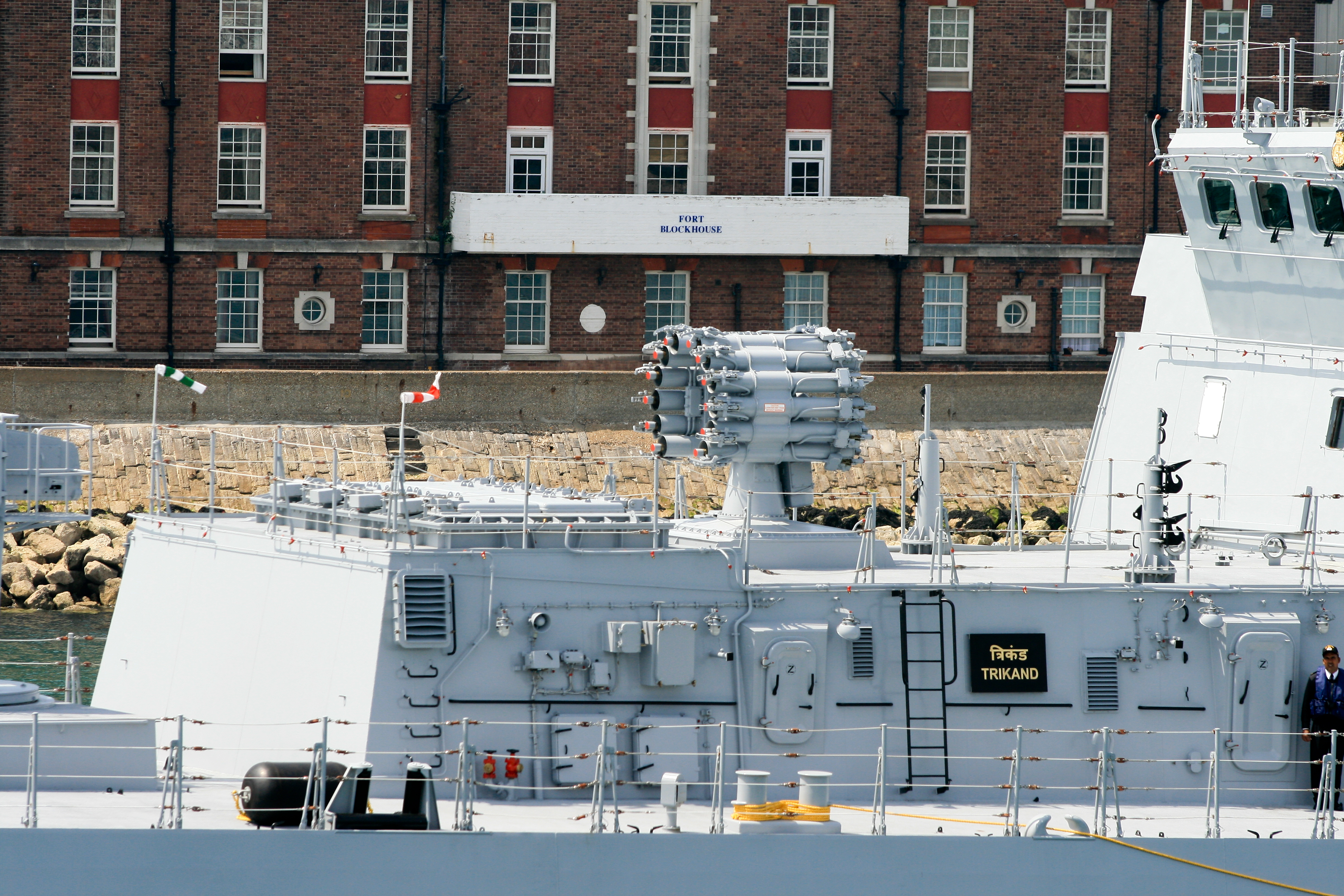 Indian Navy frigate INS Trikand (F51) of the Talwar class (modified Russian Krivak II class) departing from Portsmouth Naval Base, UK, on 16 July 2013, on an Indian-bound delivery voyage from the Baltiysky Zavod shipyard in St Petersburg. Ahead of the bridge are seen the 8-cell VLS (Vertical Launch System) for BrahMos and 3M-54E Klub anti-ship missiles, and the 12-barrelled RBU-6000 Smerch-2 launcher for anti-submarine rockets. Fort Blockhouse and the submarine base of HMS Dolphin can be seen in the background. Wikipedia editors are reminded that the copyright remains with the photographer, and that the terms of the Creative Commons (CC), Attribution (BY), Share Alike (SA) CC-BY-SA-3.0 that allow editors to reuse this image apply to Wikipedia editors also, as they do to other re-users of this image. Breaches of the licence terms are not only unlawful, but are also antisocial, in that breaches discourage photographers from making their images freely available to everyone without payment. Wikipedia re-users are also reminded of the license terms that derivatives of this image should not imply that the adaptation is endorsed or approved by the author or copyright holder. Neither should derivatives be presented as the creation of the author or copyright holder, while clearly stating that the adaptation is a derivative of the original. Attribution online should be in this format Brian Burnell. On the printed page, a simpler form is acceptable - example: "Image: Brian Burnell".